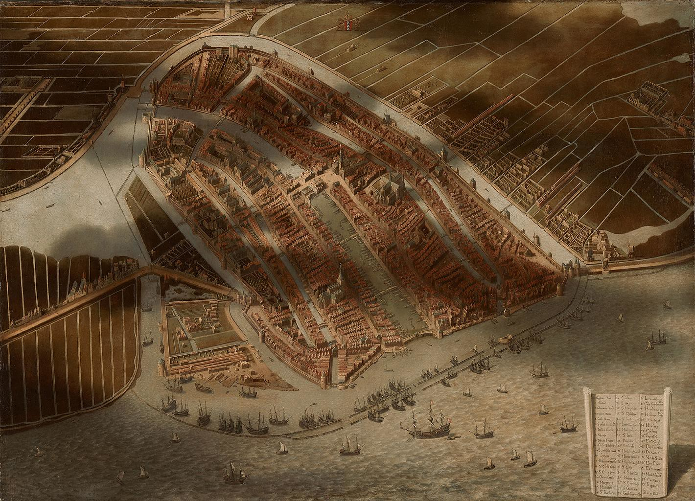 Bird's eye view of Amsterdam, painted by Jan Micker around 1652. Micker was inspired by Cornelis Anthonisz.' 1538 View of Amsterdam. This painting thus portrays Amsterdam as it must have been around 1538, and not the enlarged Amsterdam of 1652.